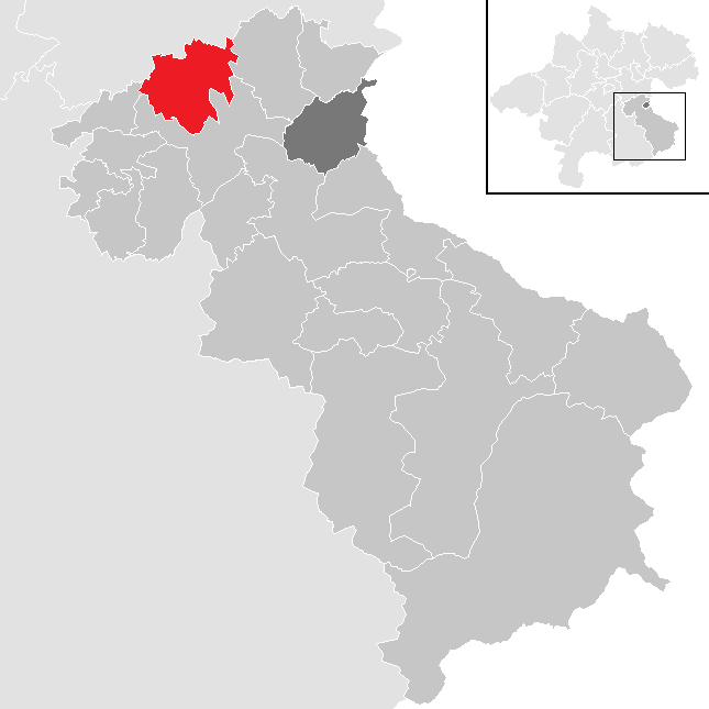 district Steyr-Land